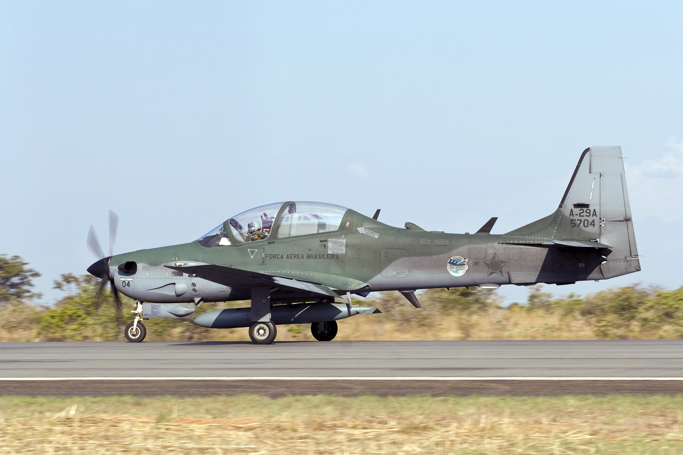 A single-seat Super Tucano at exercise Cruzex 2006, Anápolis (Brazil). The A-29A incorporates an additional tank for 400 liters.